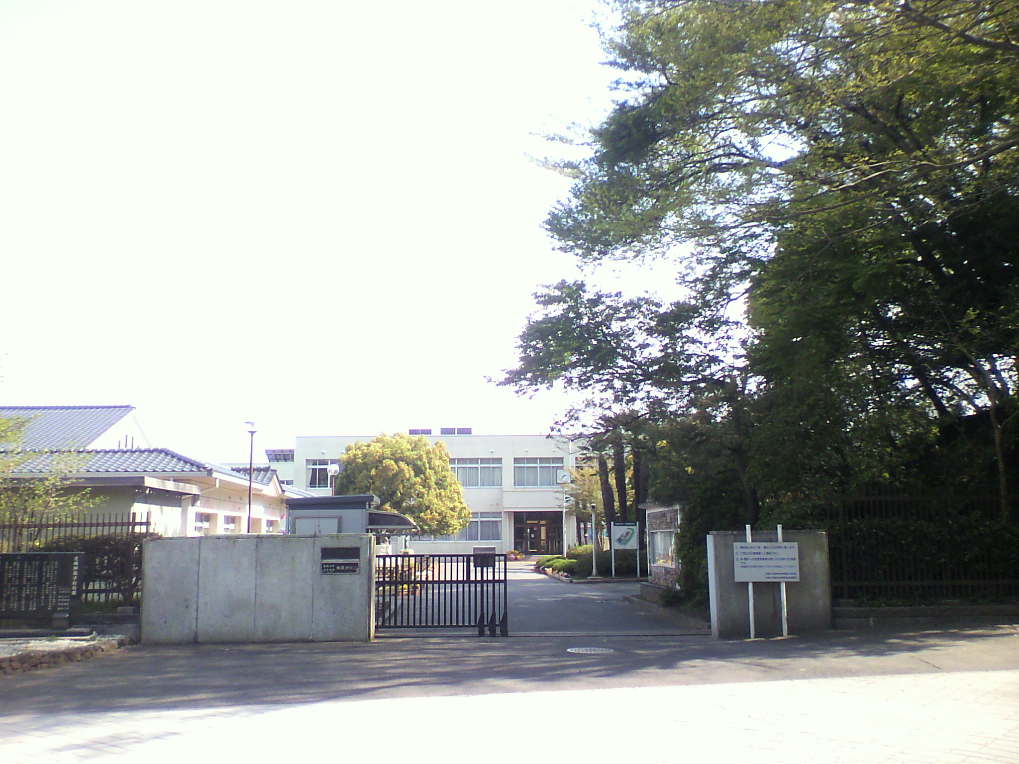 This is the Ibaraki University College of Education Elementary School.